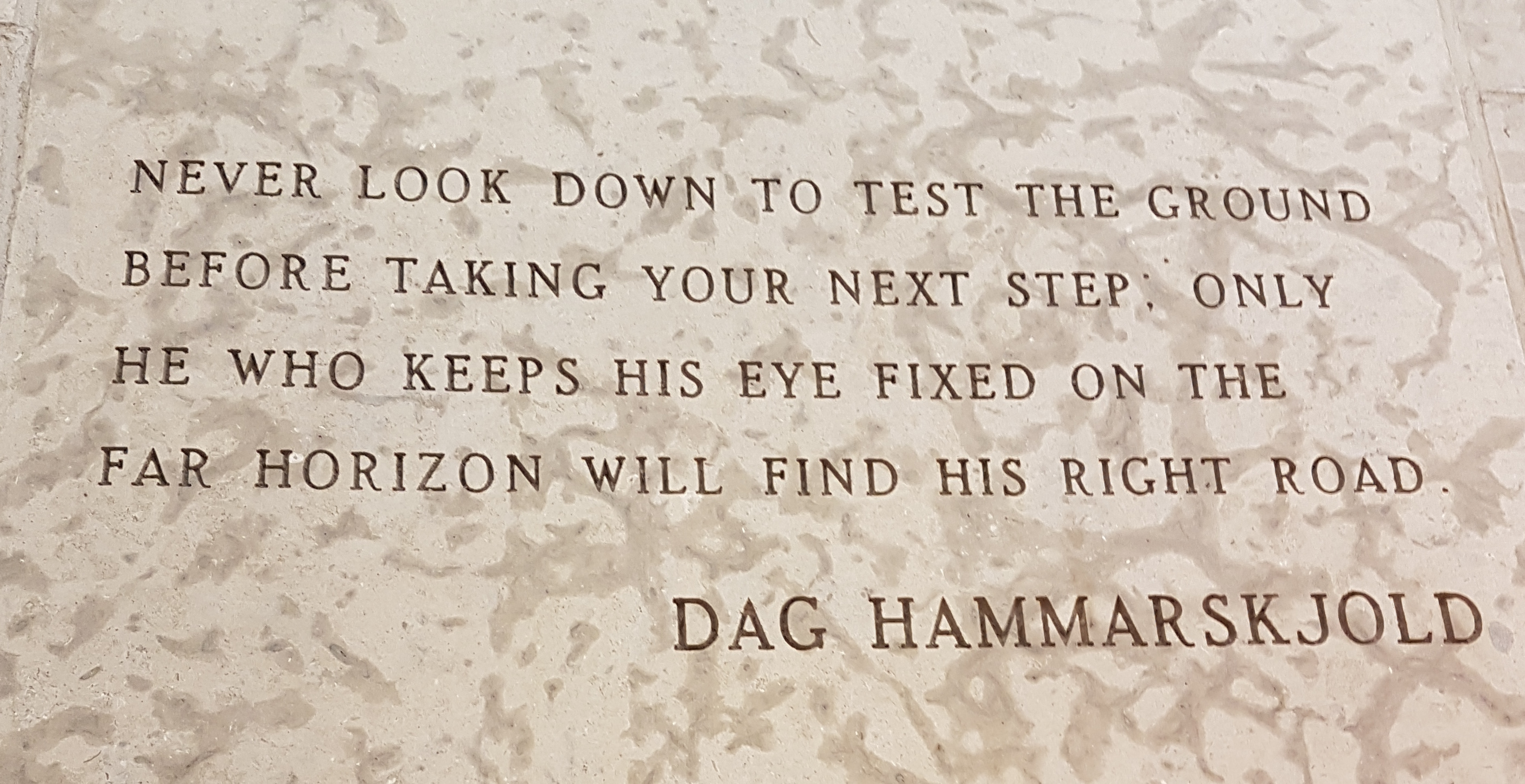 A quote by Dag Hammarskjöld engraved in the stone wall within the Peace Chapel of the International Peace Gardens (in Manitoba Canada and North Dakota, USA).